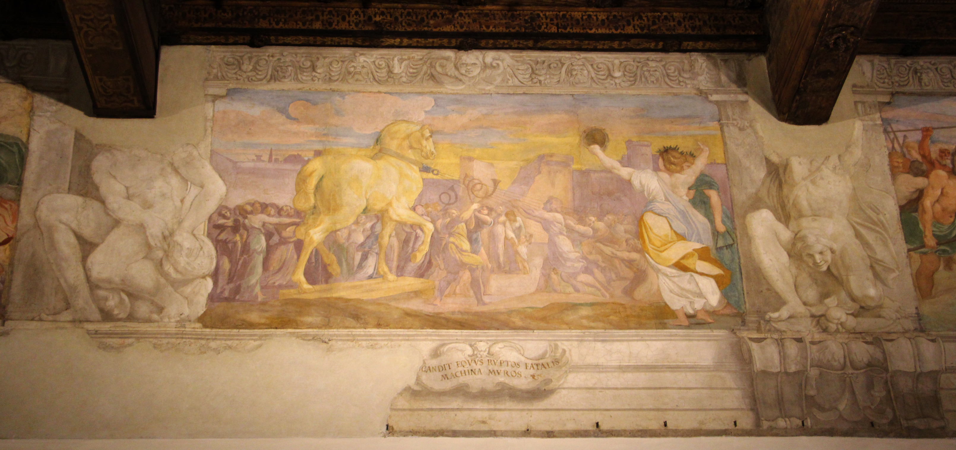 Frieze of Aeneas by the Carracci family